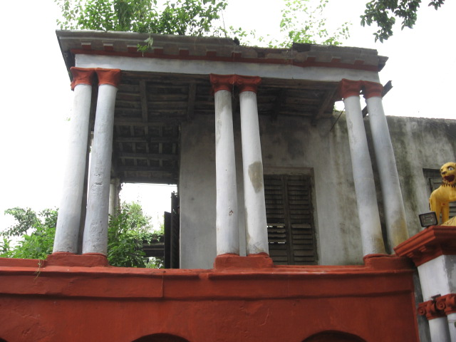 The remains of the Natmandir at Shovabazar Rajbari, Kolkata